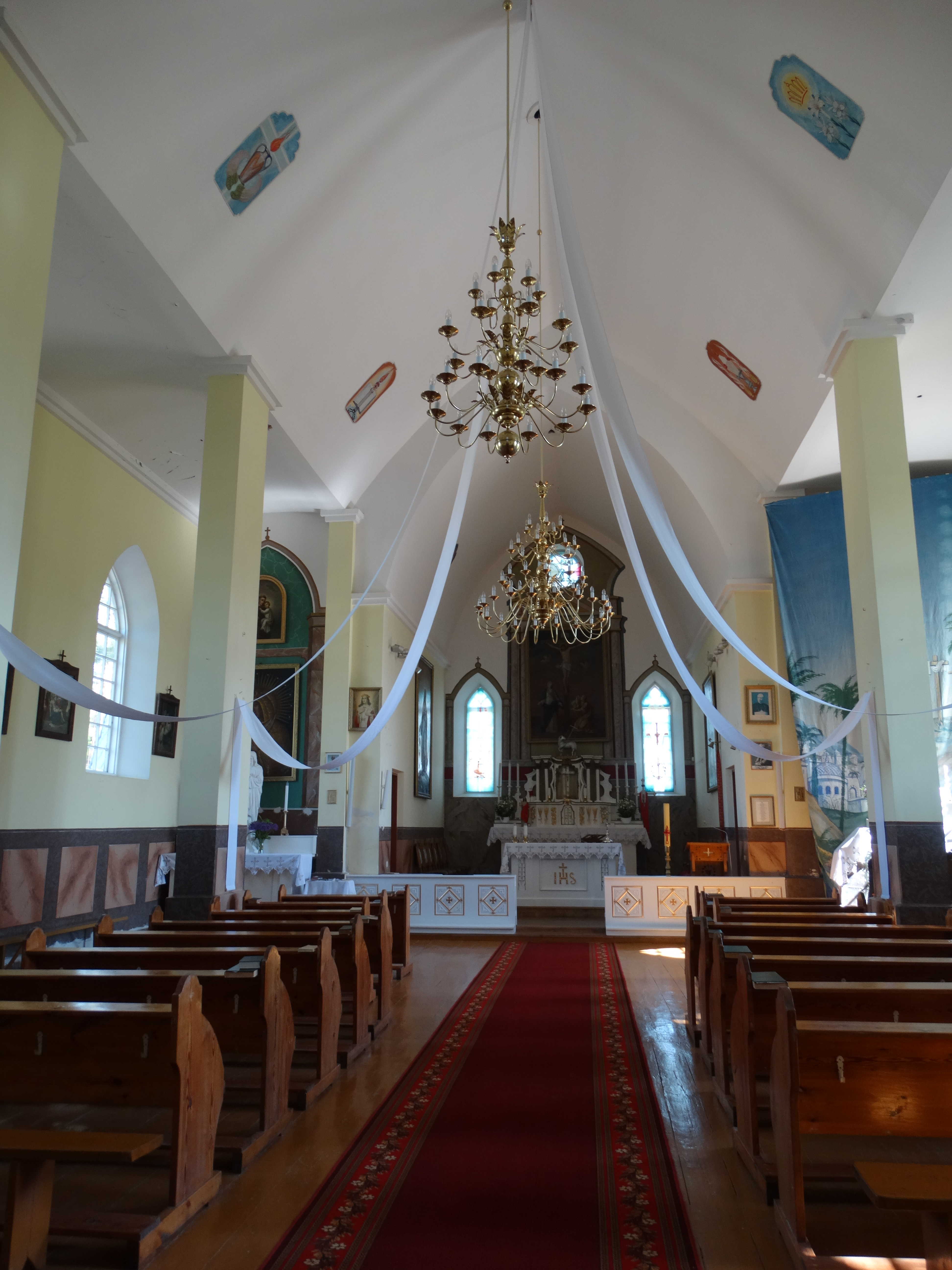 St. John the Martyr's Church, Stirniai, Molėtai district, Lithuania